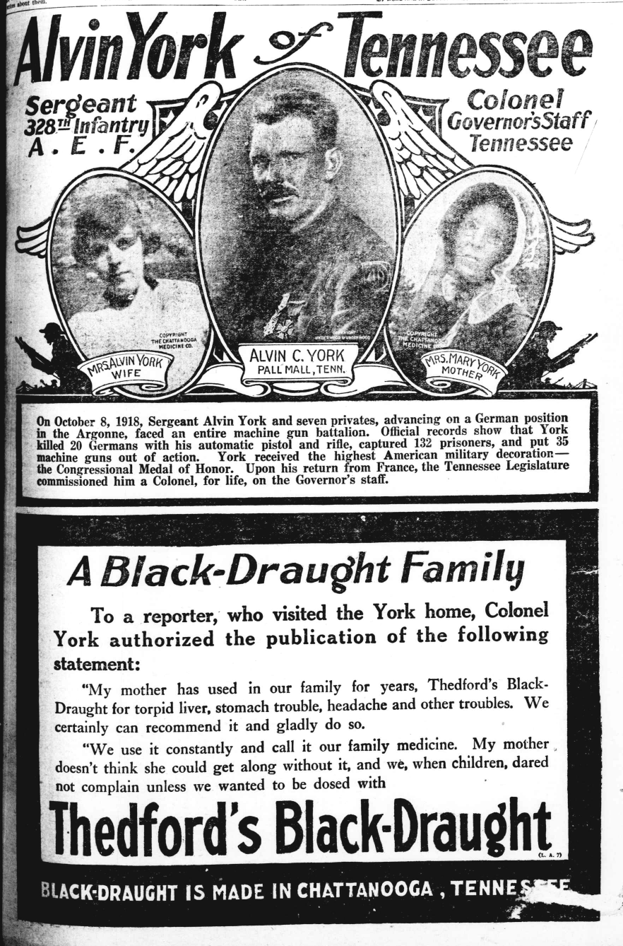 Alvin York and family in an ad for Thedford's Black Draught, a patent medicine.